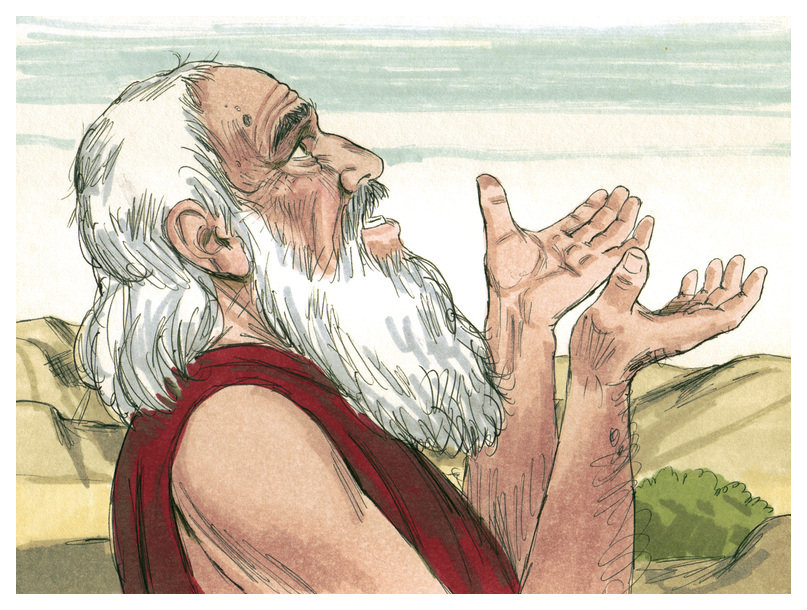 Biblical illustration of Book of Genesis Chapter 18